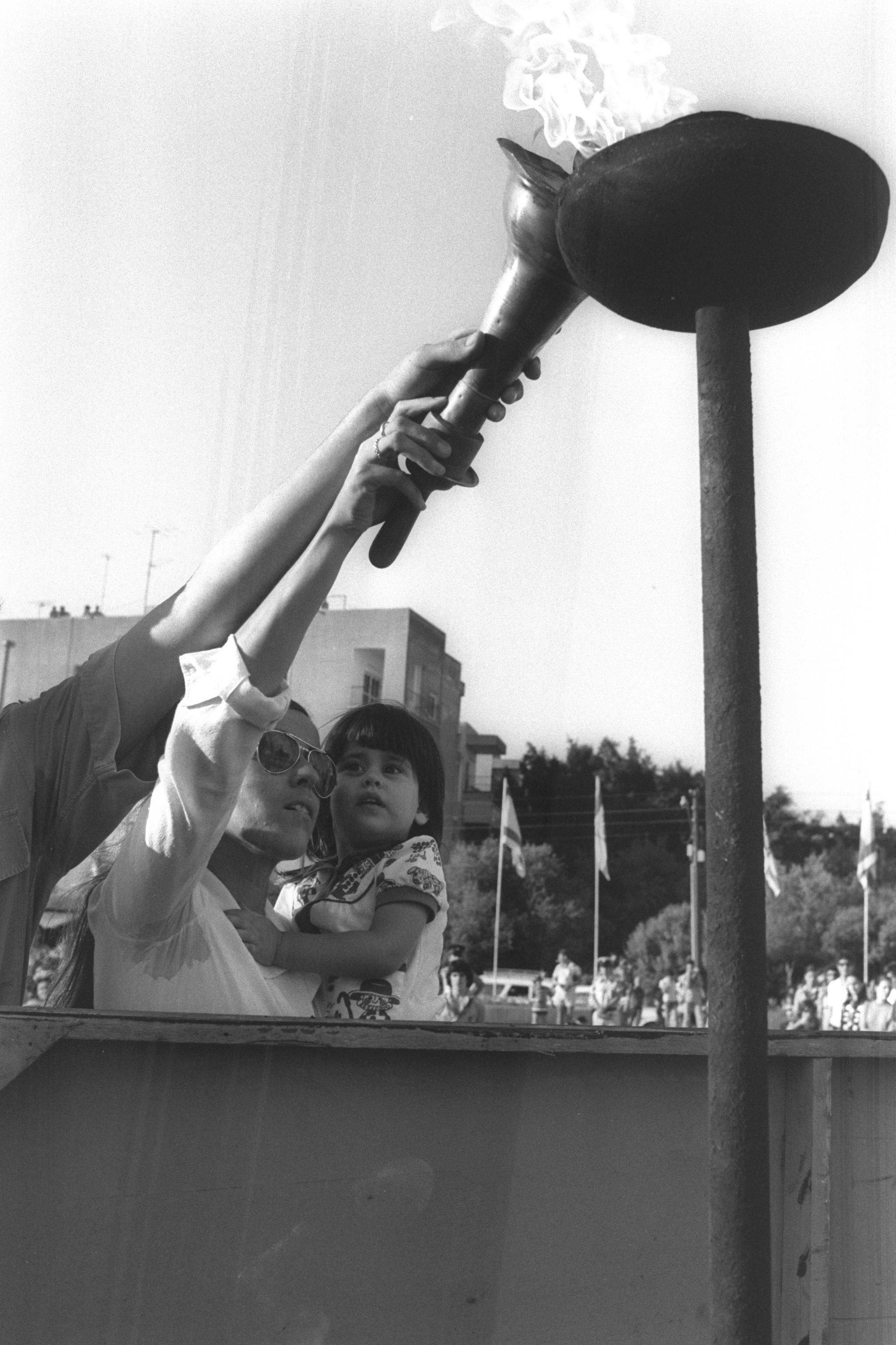 The widow of Andre Spitzer, one of 11 Israeli athletes massacred in Munich, holds her daughter while lighting the torch during a memorial ceremony on Yud Alef square. אלמנתו של אנדרה שפיצר, הספורטאי הישראלי שנרצח בטבח במינכן, אוחזת בביתה בזמן הדלקת הלפיד בטקס זיכרון באנדרטת הי"א. Photo: Yaakov Saar (1951–) Alternative names SA'AR YA'ACOV; Jacob Saar; Saʻar, YaʻaḳovDescriptionIsraeli photographerDate of birth 1951 Authority control : Q28751896 VIAF: 298161188 NLI: 001394176 creator QS:P170,Q28751896 , 19/09/1974.